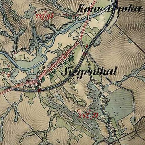 1869 in Siegenthal